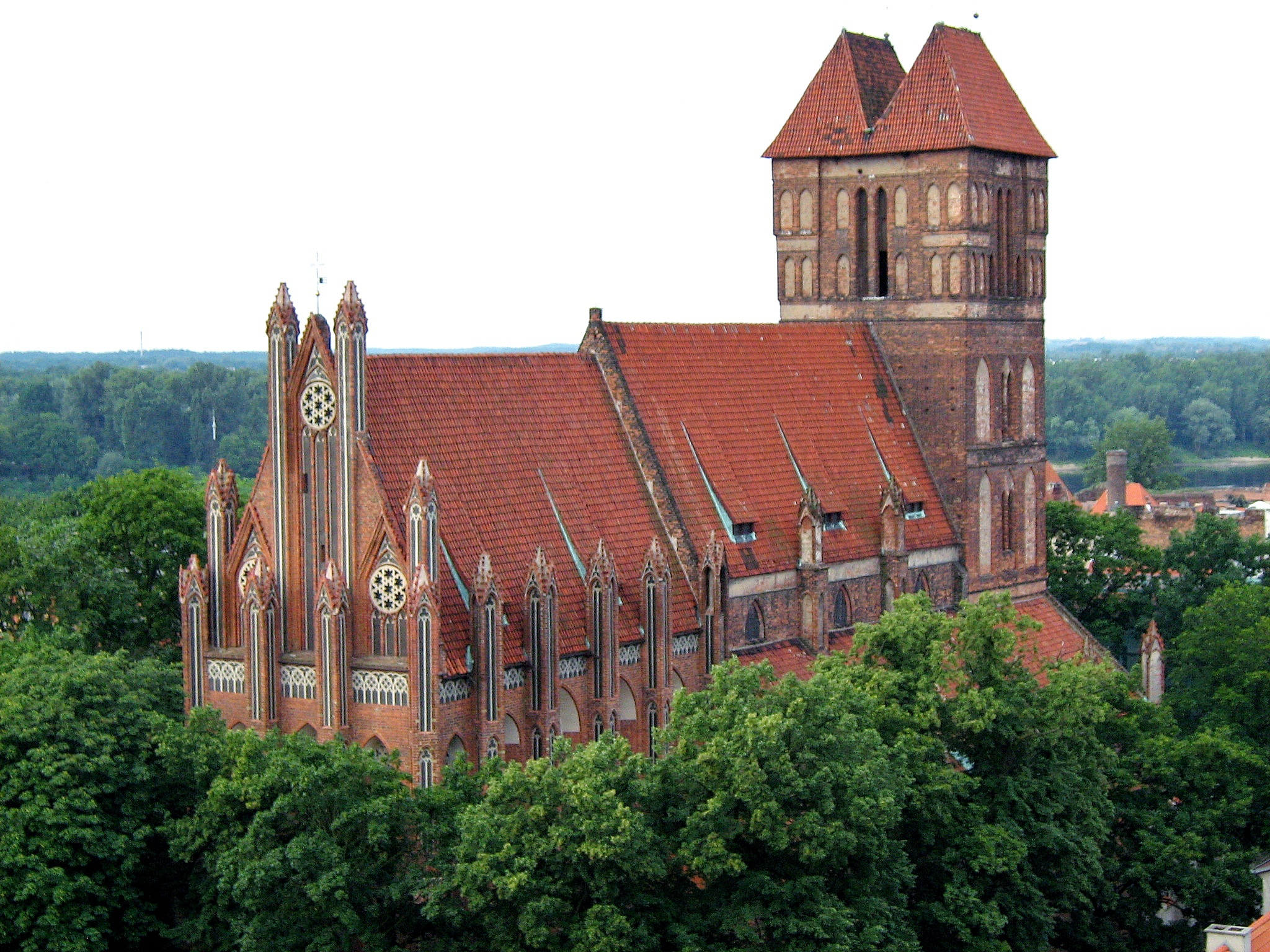 Church of St. James in Toruń